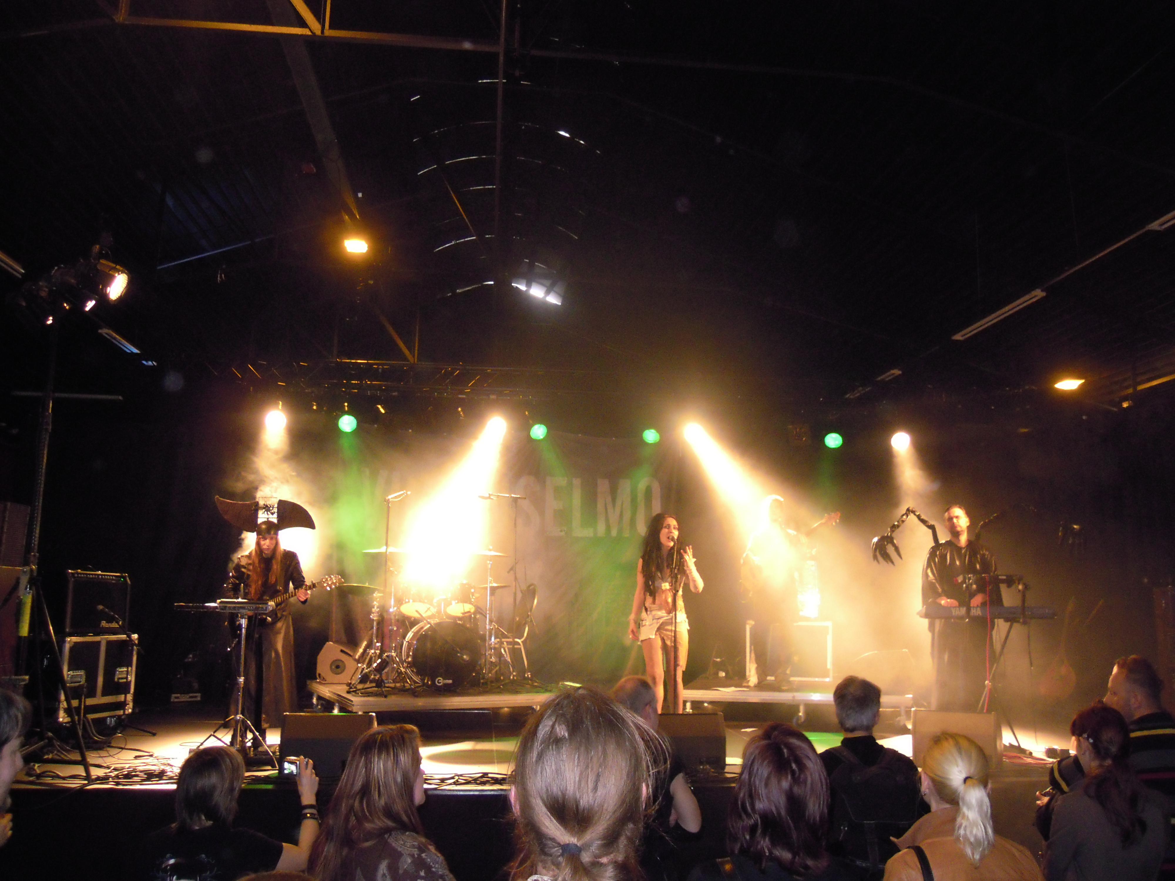 Vic Anselmo at the Gothic & Fantasy Beurs in Rijswijk, the Netherlands on March 17, 2012